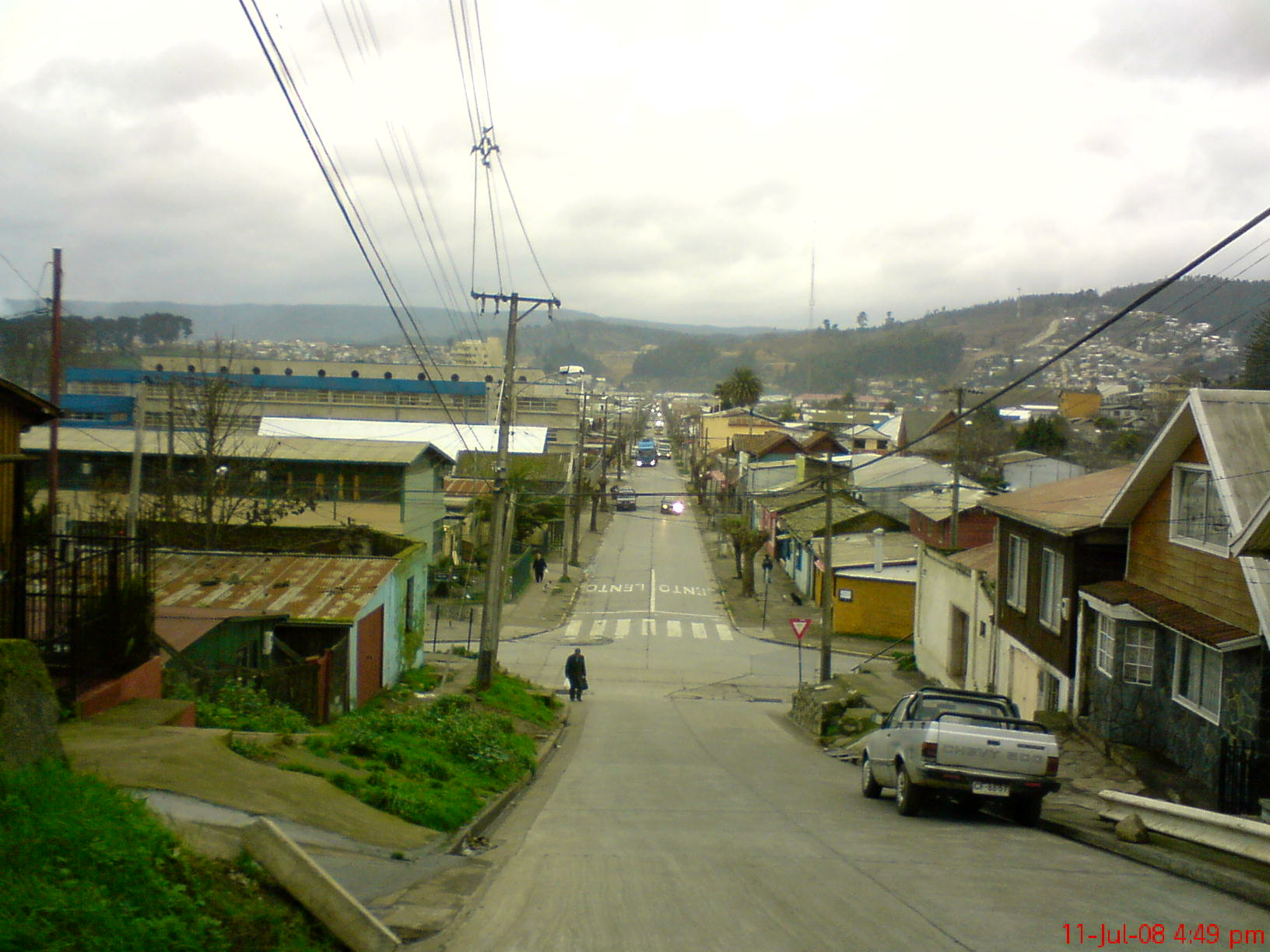 Penco city